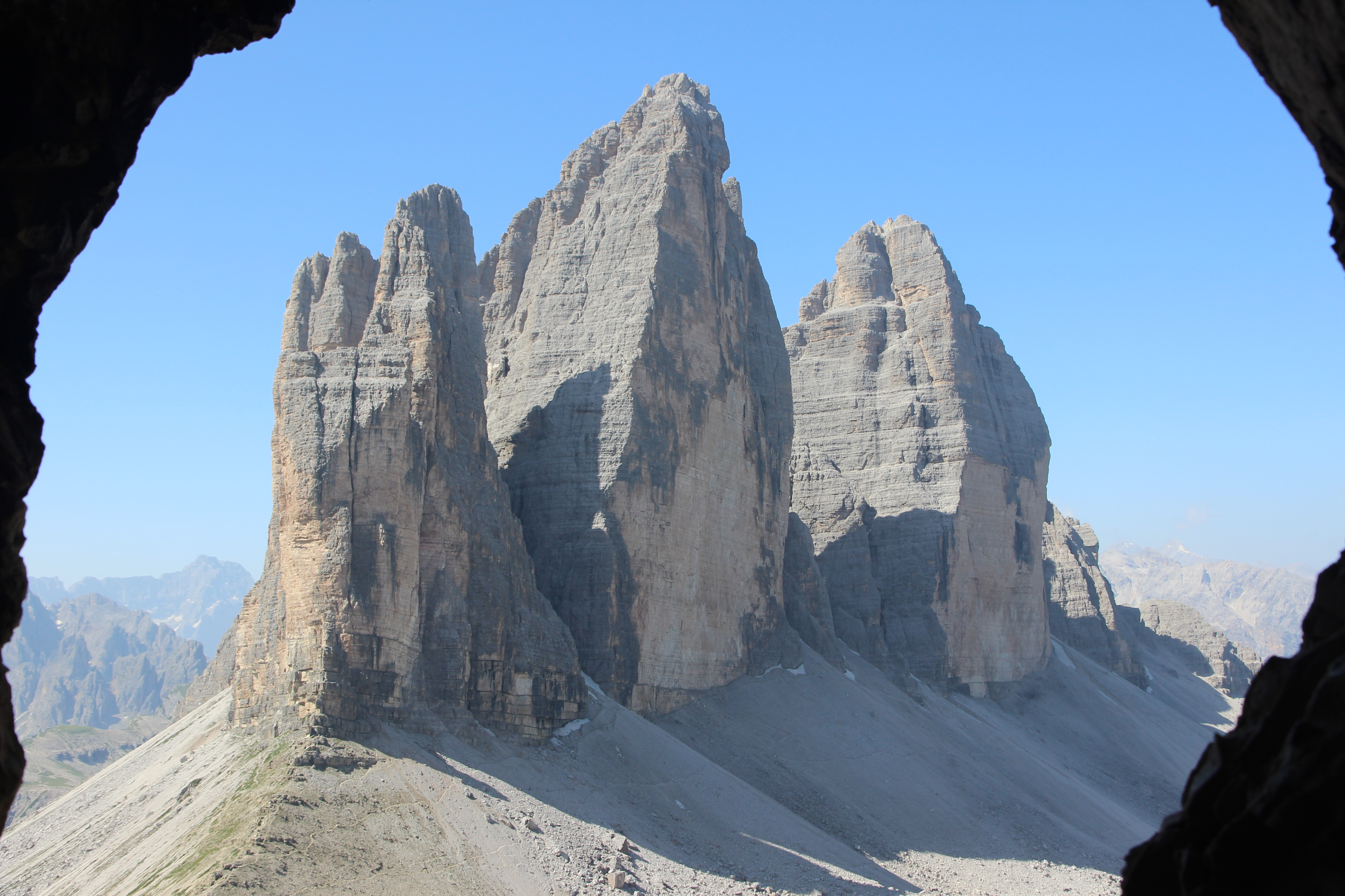 Drei Zinnen / Tre Cime di Lavaredo as seen from via ferrata De Luca-Innerkofler (described on